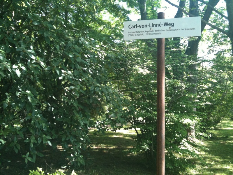 Sign at the Botanic Garden, University of Mainz